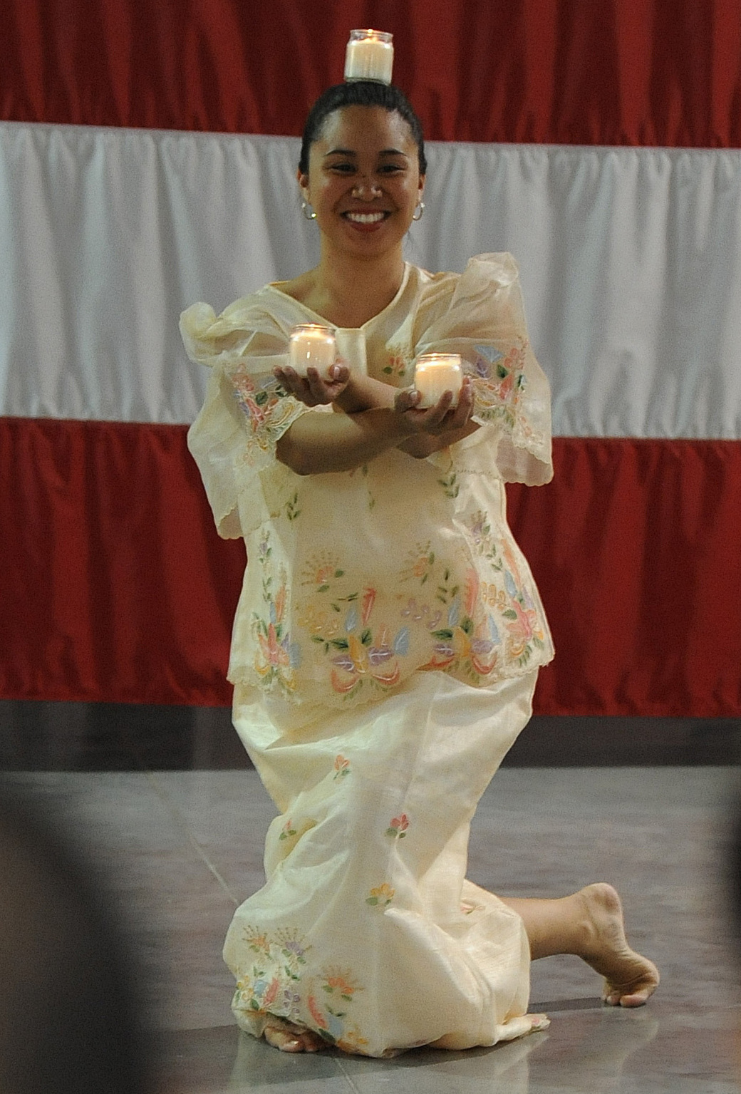 Crystal Vergara, wife of Staff Sgt. Jaime Vergara, 509th Medical Support Squadron NCO in charge of resource management, performs the “Panganggo” as part of an Asian-American and Pacific Islander heritage celebration at Whiteman Air Force Base, Mo., May 8, 2013. “Pandanggo” is a popular folk dance in the Philippines, also known as “the dance of lights,” and simulates fireflies at dusk and at night. (U.S. Air Force photo by Staff Sgt. Nick Wilson/Released)